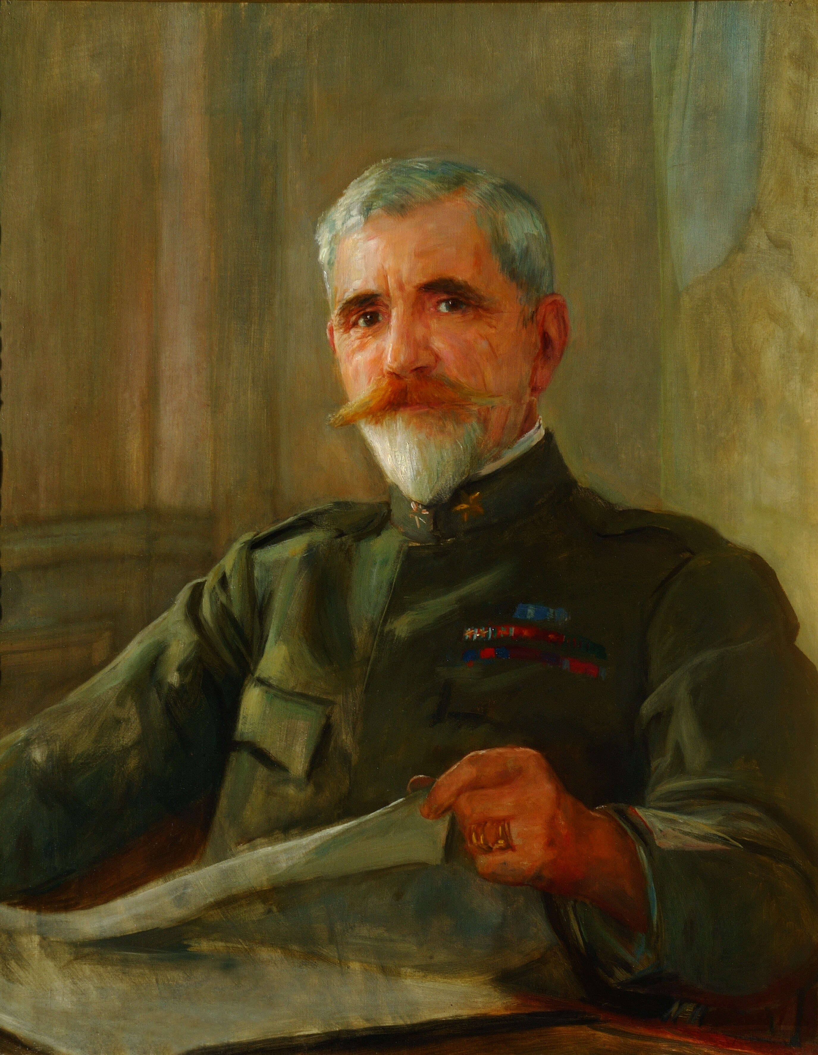 General Di Robilant - Italian Military Representative on the Supreme War Council, Versailles image: A half length portrait of Di Robilant, wearing Italian Army uniform and sitting at a desk.